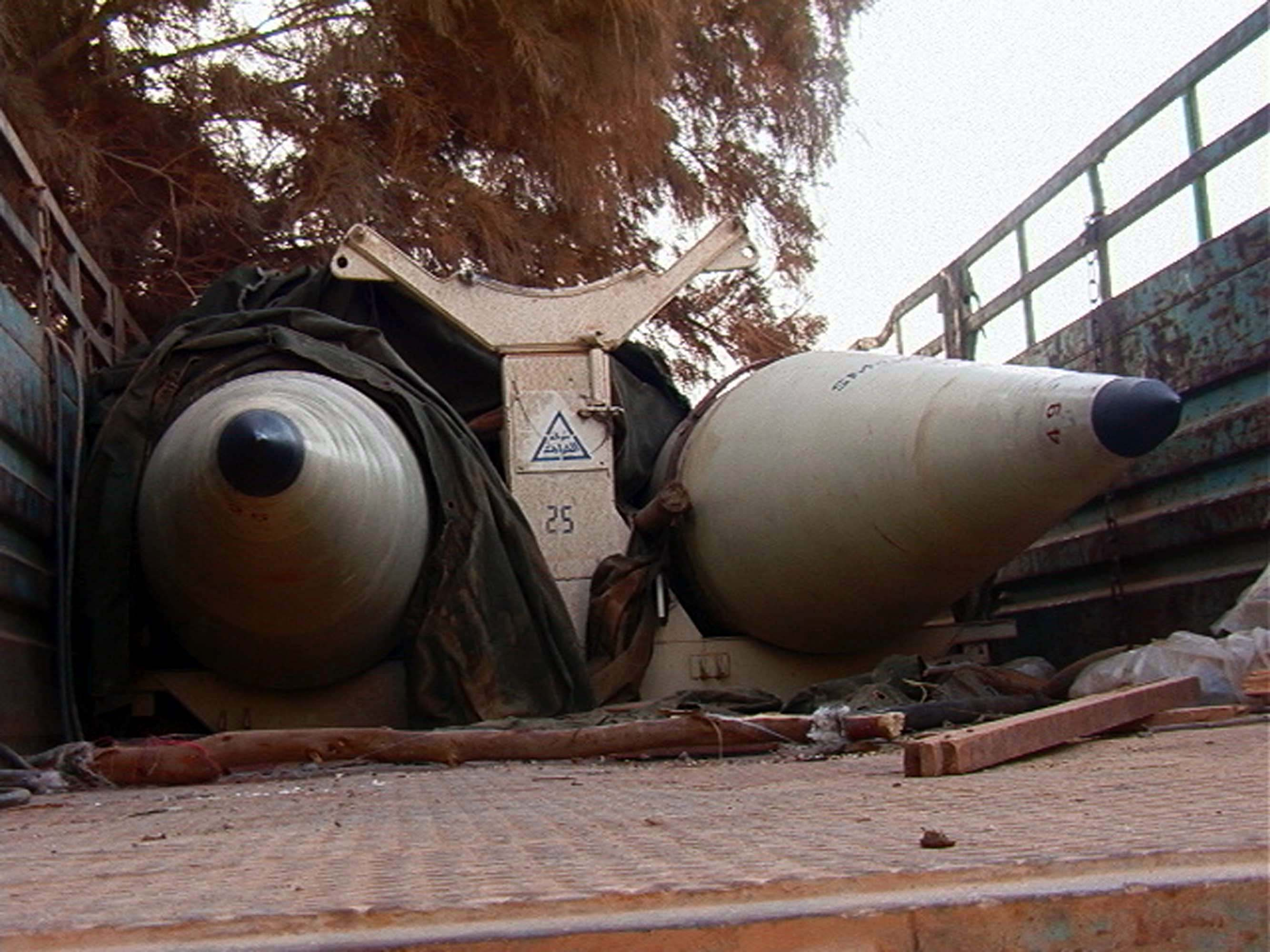 Central Command Area of Responsibility (Apr. 1, 2003) -- Regimental Combat Team Five (RCT-5) 1st battalion 5th Marines secure an abandon trailer with two enemy al-Samoud 2 missiles. UN weapons inspectors had ordered the destruction of these missiles, because the exceeded the 94-mile range set under U.N. resolutions imposing controls on Iraqi arms since the 1991 Gulf War. RCT-5 is deployed conducting combat missions in support of Operation Iraqi Freedom. Operation Iraqi Freedom is the multinational coalition effort to liberate the Iraqi people, eliminate Iraqi's weapons of mass destruction and end the regime of Saddam Hussein. U.S. Marine Corps photo taken by Gunnery Sgt. Matthew M. Smith. (RELEASED)